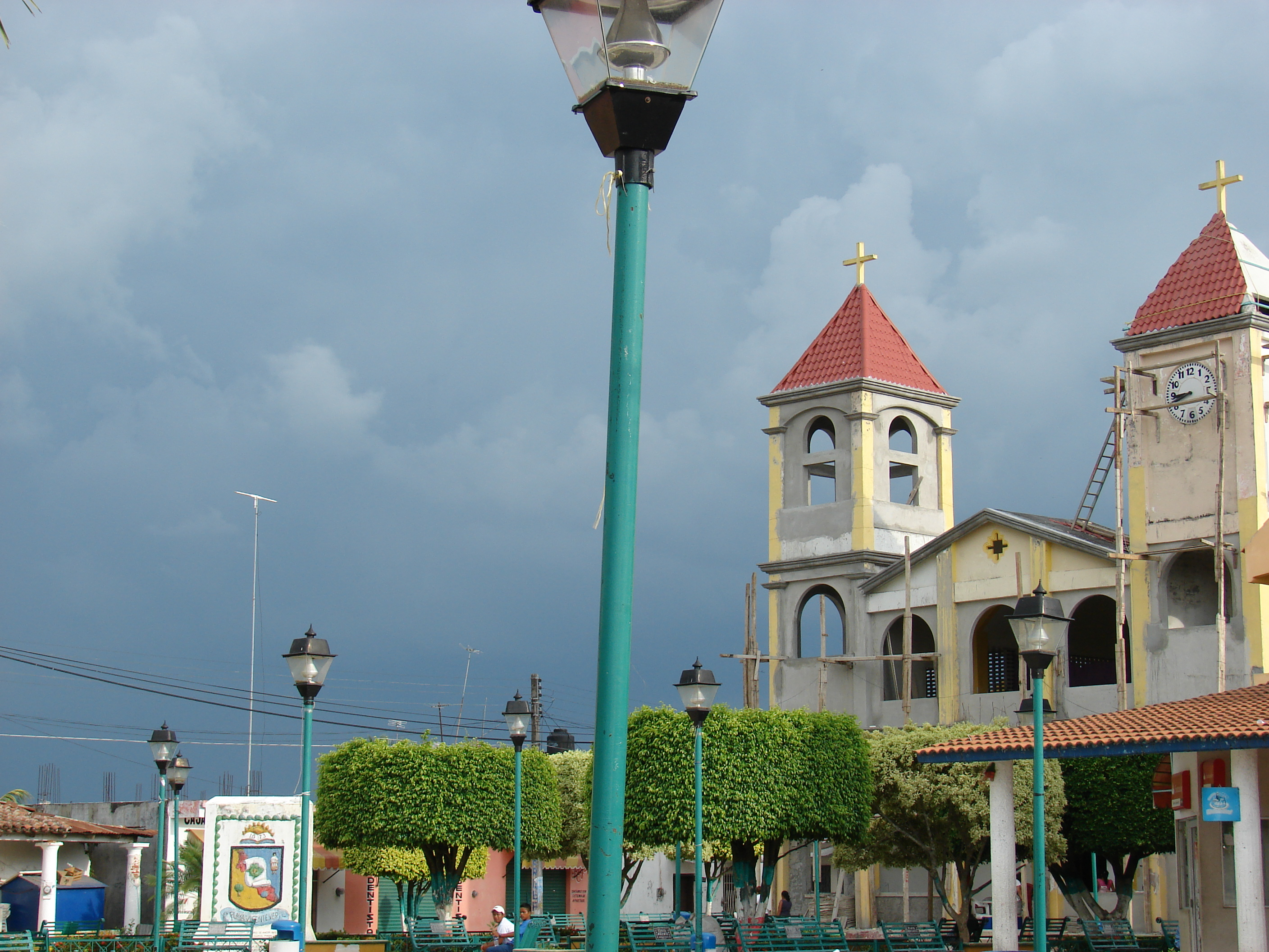 Downtown of Playa Vicente VE. México